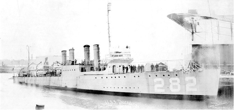 The U.S. Navy destroyer USS Toucey (DD-282) at the Boston Naval Shipyard, Charlestown, Massachusetts (USA), in January 1920.